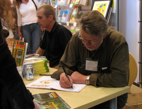 The Swedish cartoonist Lars Mortimer is just finishing drawing and signing one of his books about the moose Hälge. Book Fair Gothenburg Sep. 24th 2006